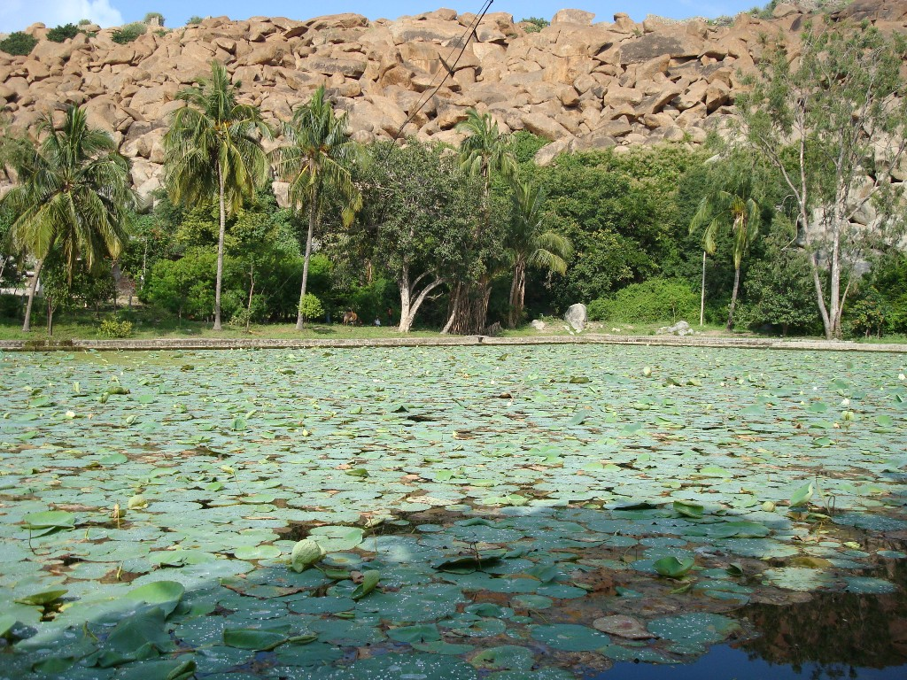 Pampa Sarovar ગુજરાતી: પંપા સરોવર